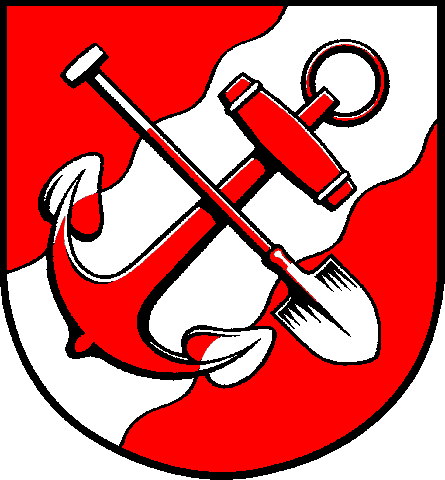 Coat of arms of Brunsbüttel Blasonierung: In Rot ein schräglinker silberner Wellenbalken, den, schräglinks gekreuzt, ein Anker mit Ring und ein Spaten in verwechselten Farben überdecken.